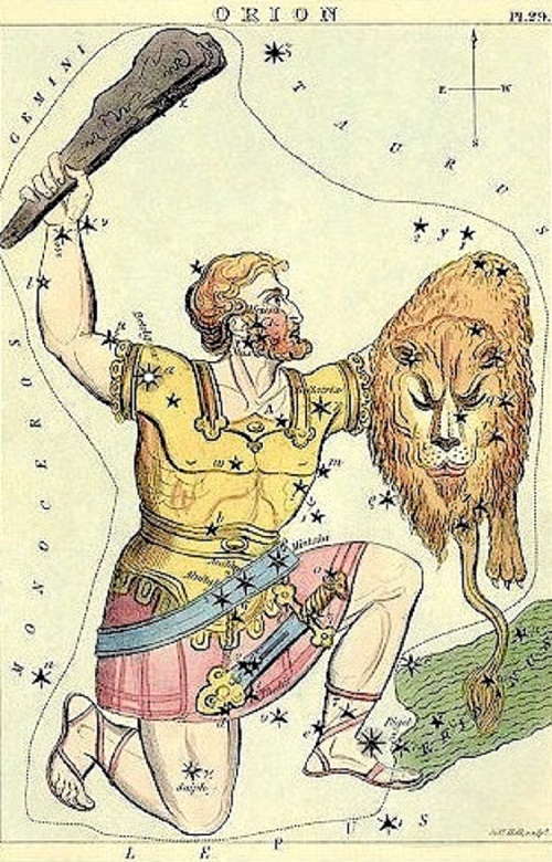 Orion Constellation